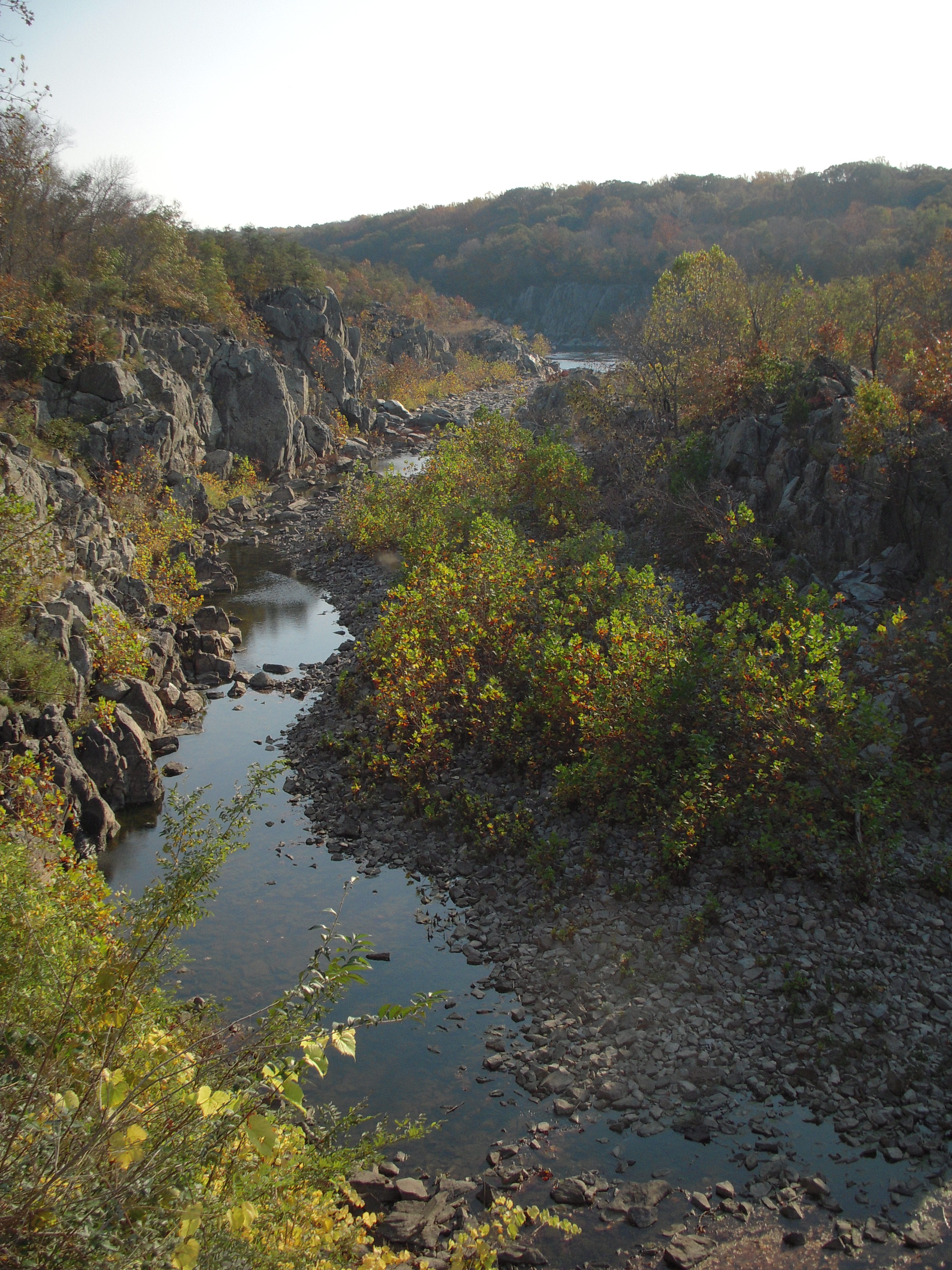 Old main valley of the Potomac, near the Great Falls